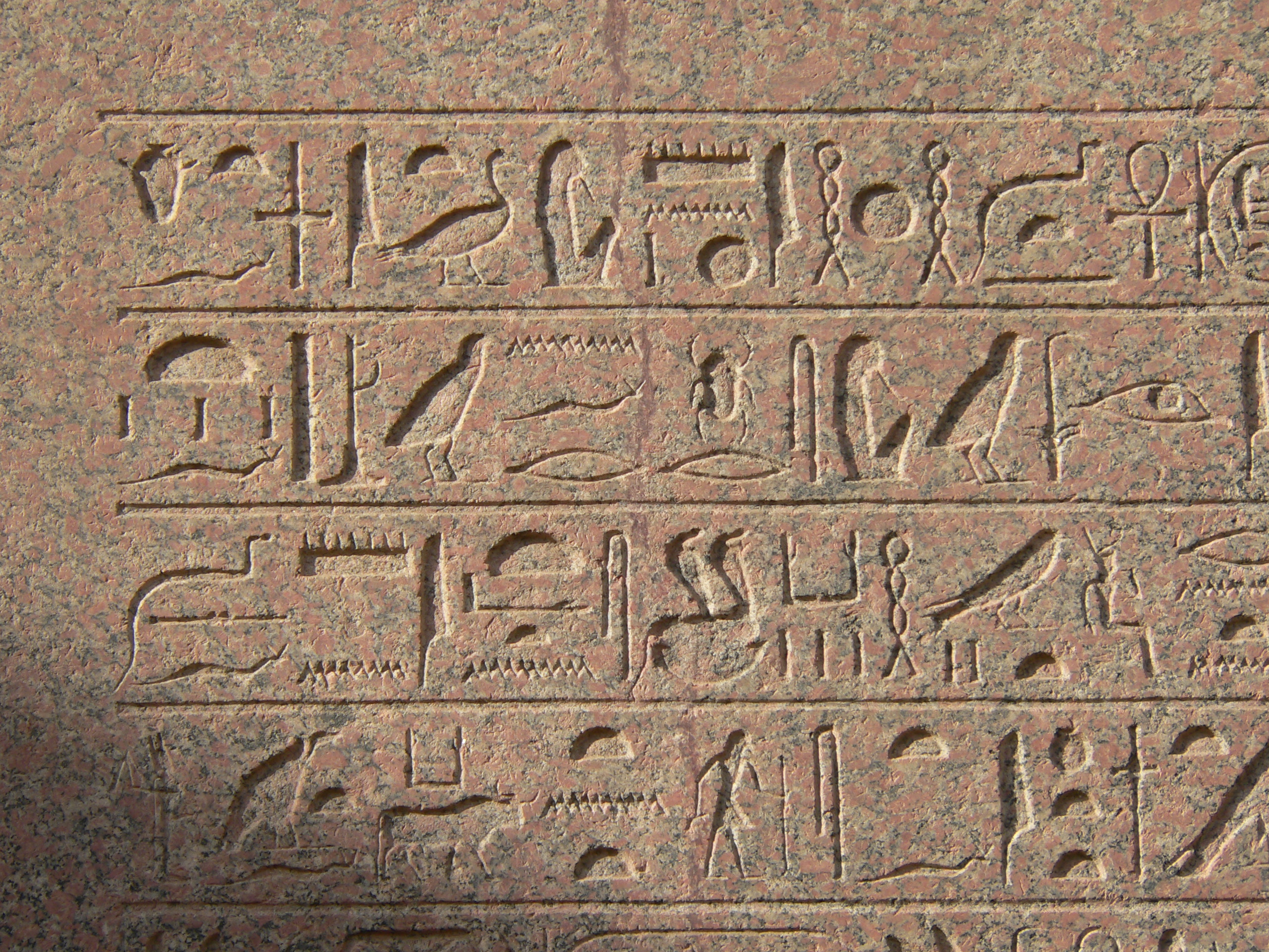 Hieroglyphics inscribed on the obelisk of Hatshepsut erected in the temple of Karnak. Upper left-part of the Dedication Inscription, Queen Hatshepsut's Obelisk, at Karnak. (All lines read right-to-left into the faces of figures.)